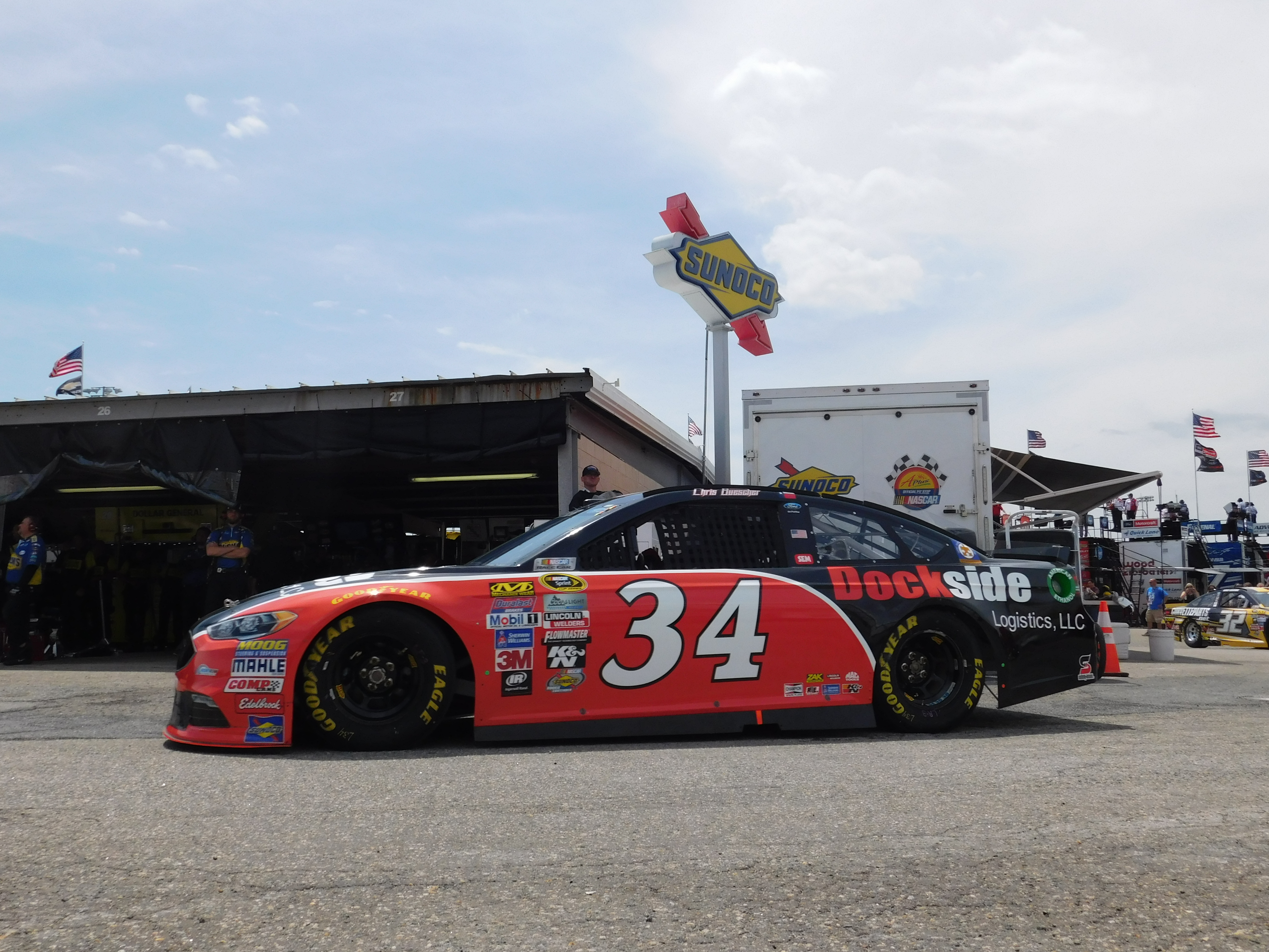 Chris Buescher's No. 34 Dockside Logistics Ford at Dover International Speedway in 2016